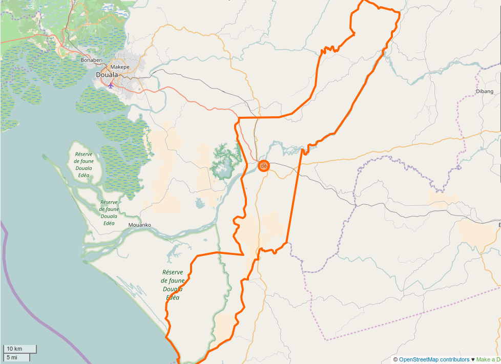 Edea in Cameroon, city boundaries with OSM. This map may be incomplete, and may contain errors. Don't rely solely on it for navigation.